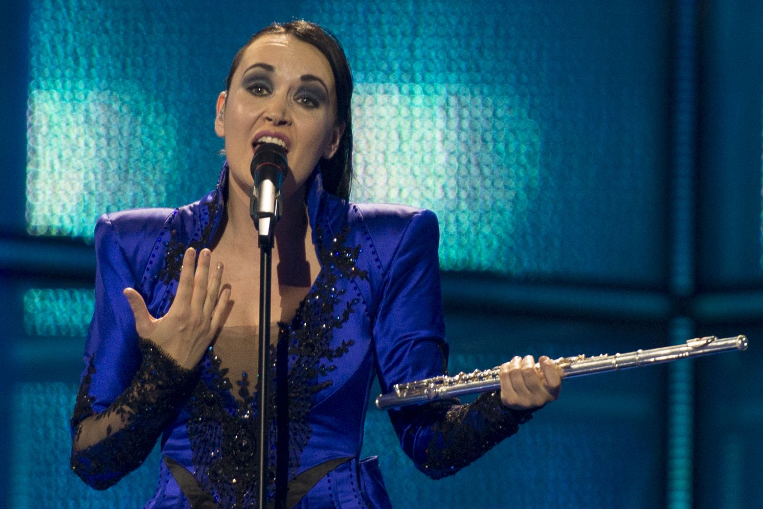 Tinkara Kovač representing Slovenia with the song "Spet (Round and Round)" during the first dress rehearsal of the second semi final of the Eurovision Song Contest 2014 Copenhagen. (Help translate this text)